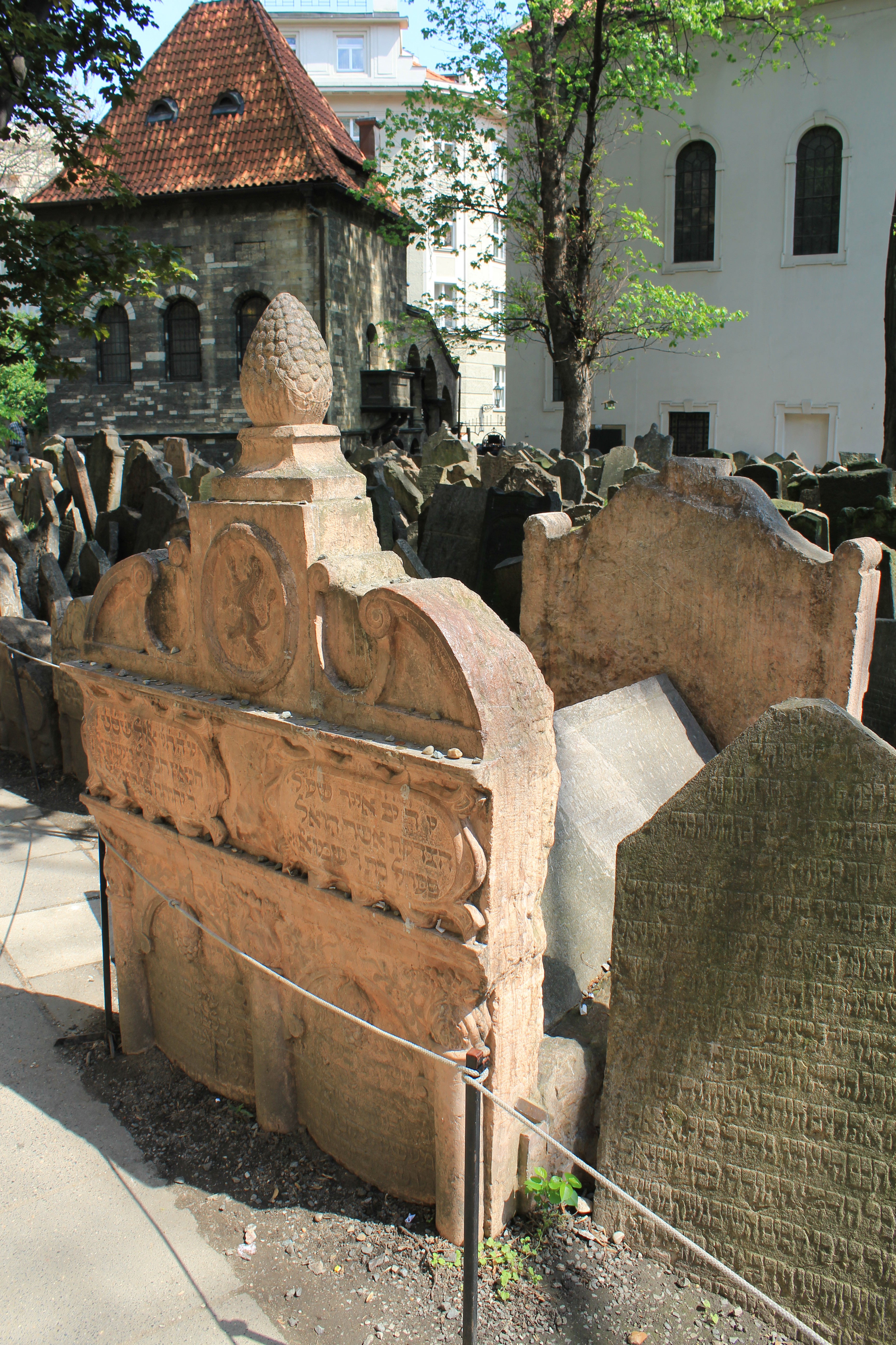 The jewish cemetery with the grave of Rabbi Lov in Josefov.